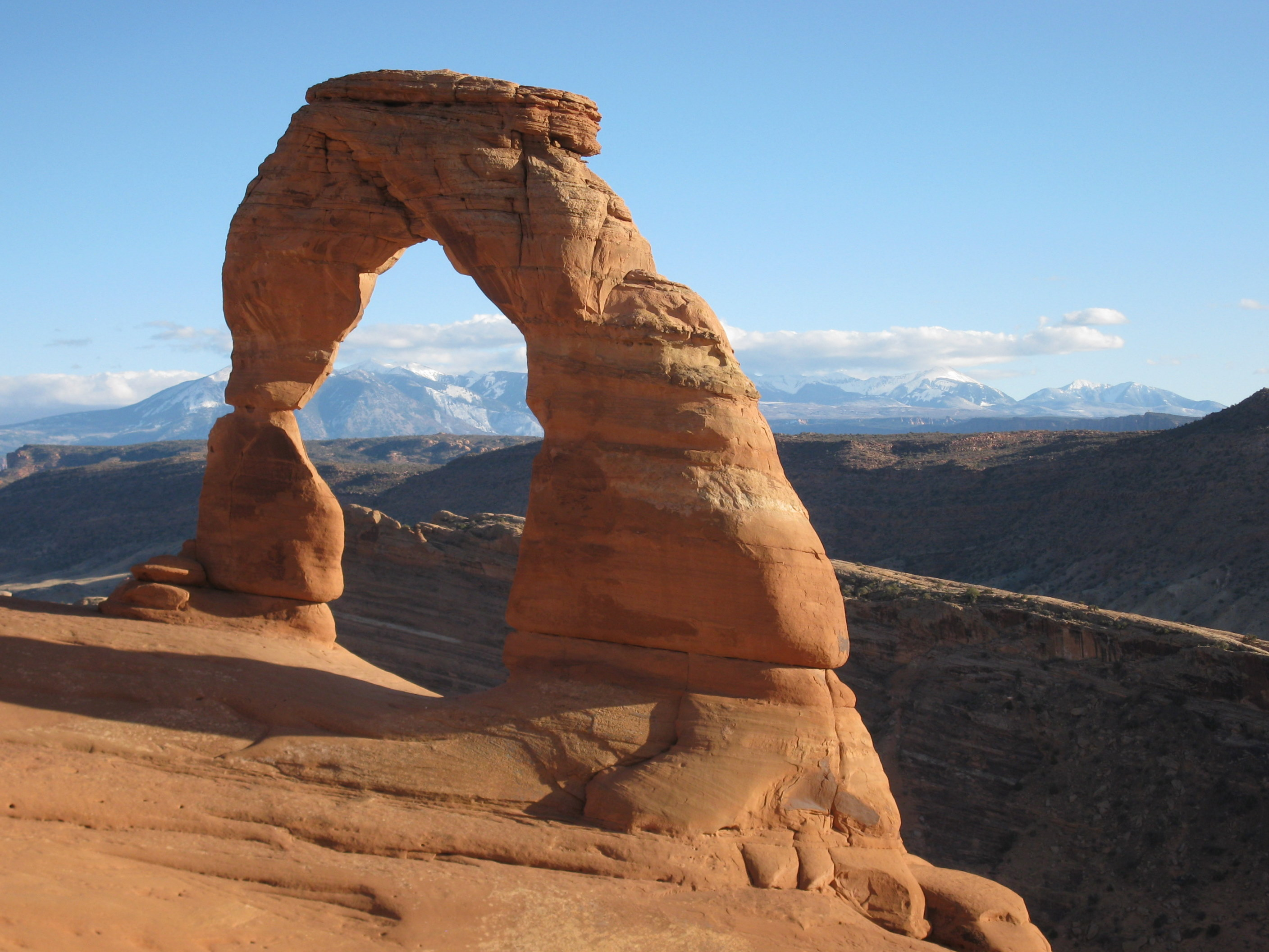 Delicat Arch